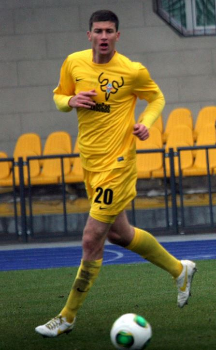 Michalik